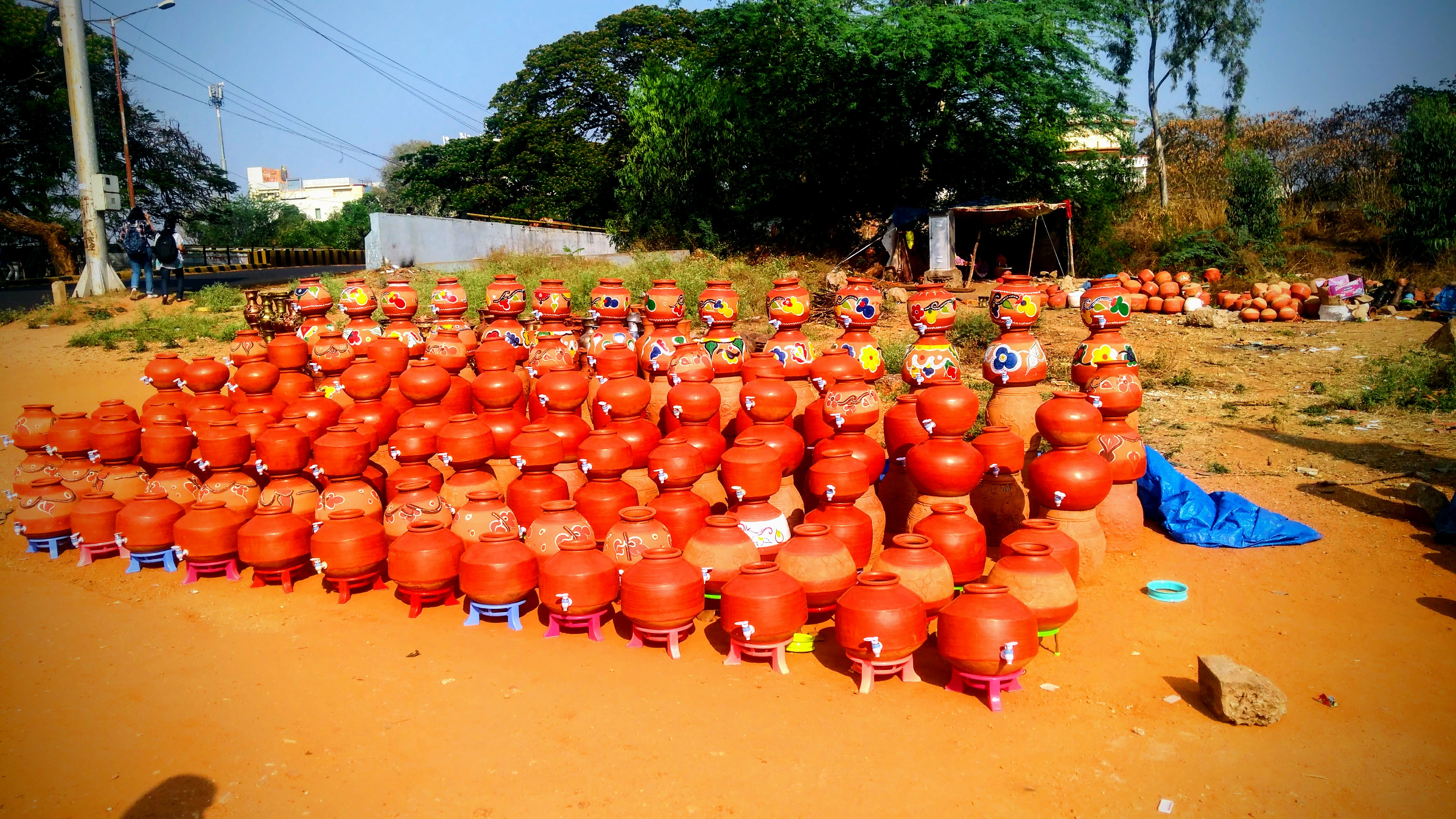 The pot which gives satisfaction when we drink water from it This photo has been taken in the country: India